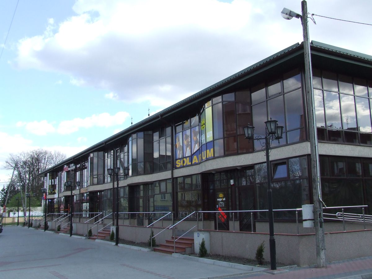 Radzymin, shops, main city square